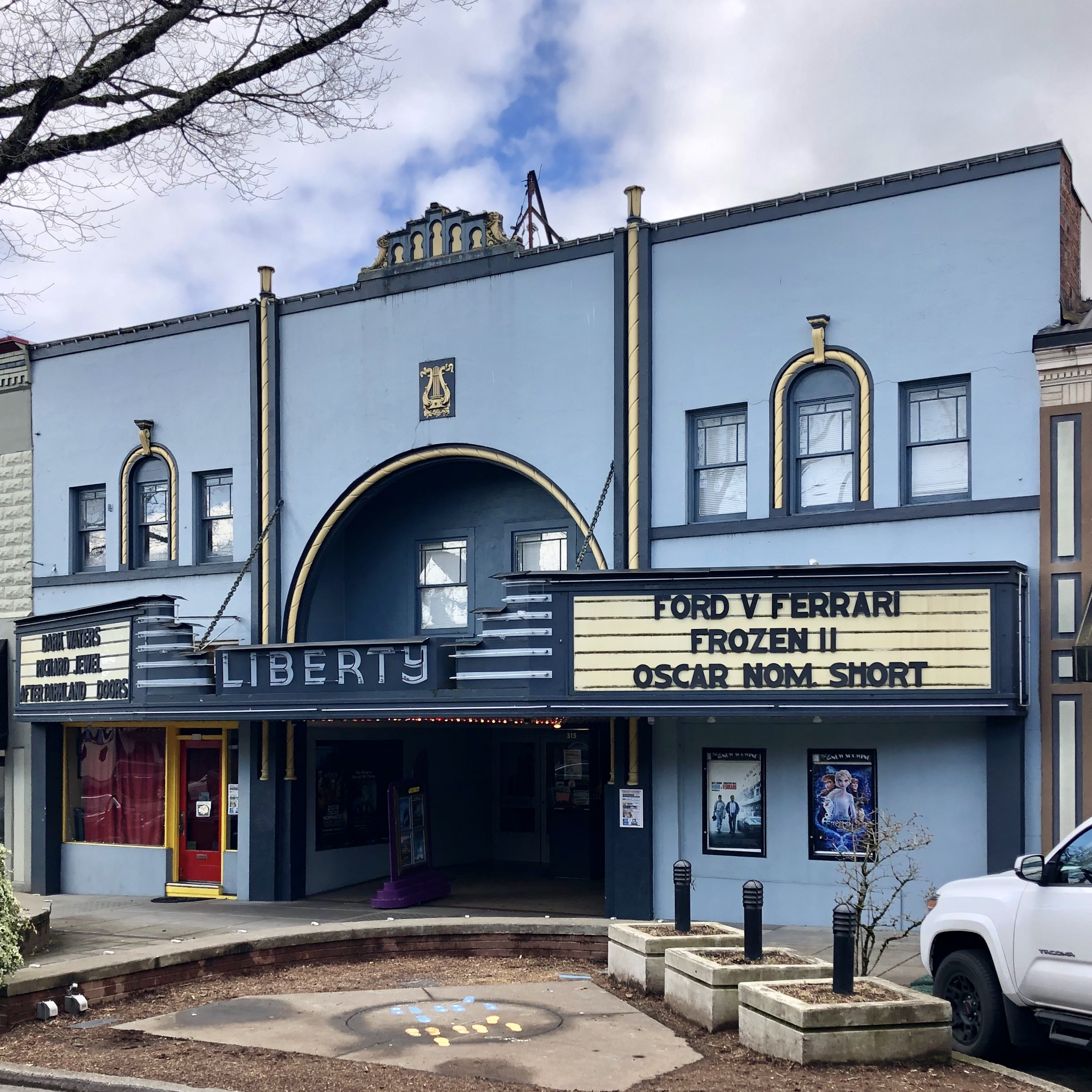 Facade of the Liberty Theatre, Camas, Washington in daylight. Marquee displays Ford v Ferrari, Frozen II, Oscar Nom Short